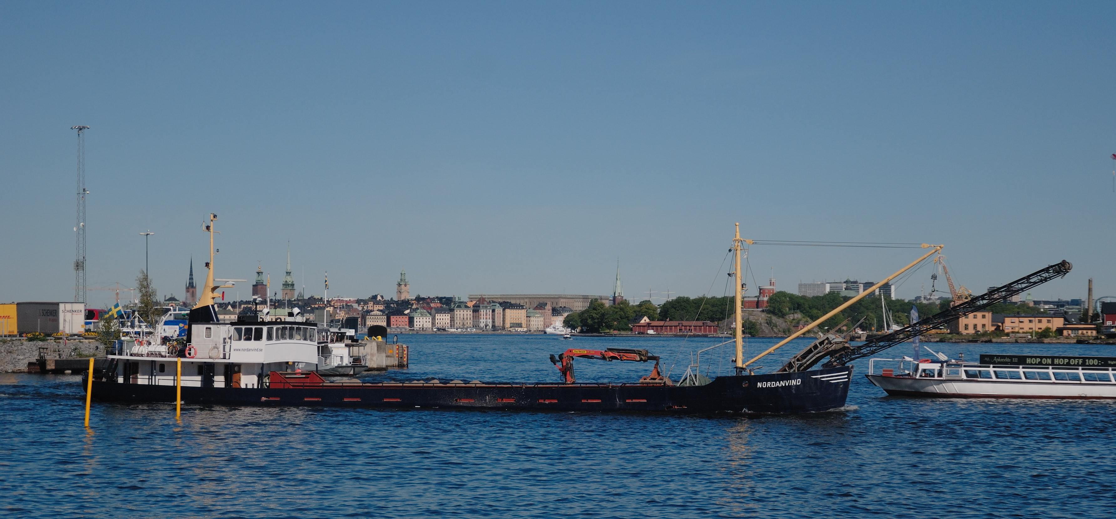 M/S Nordanvind, June 2011.